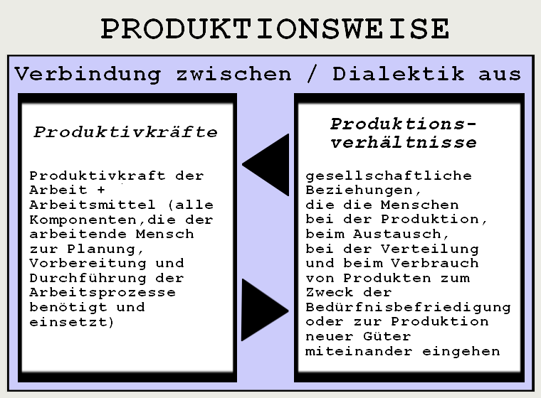 Produktionsweise / Mode of production